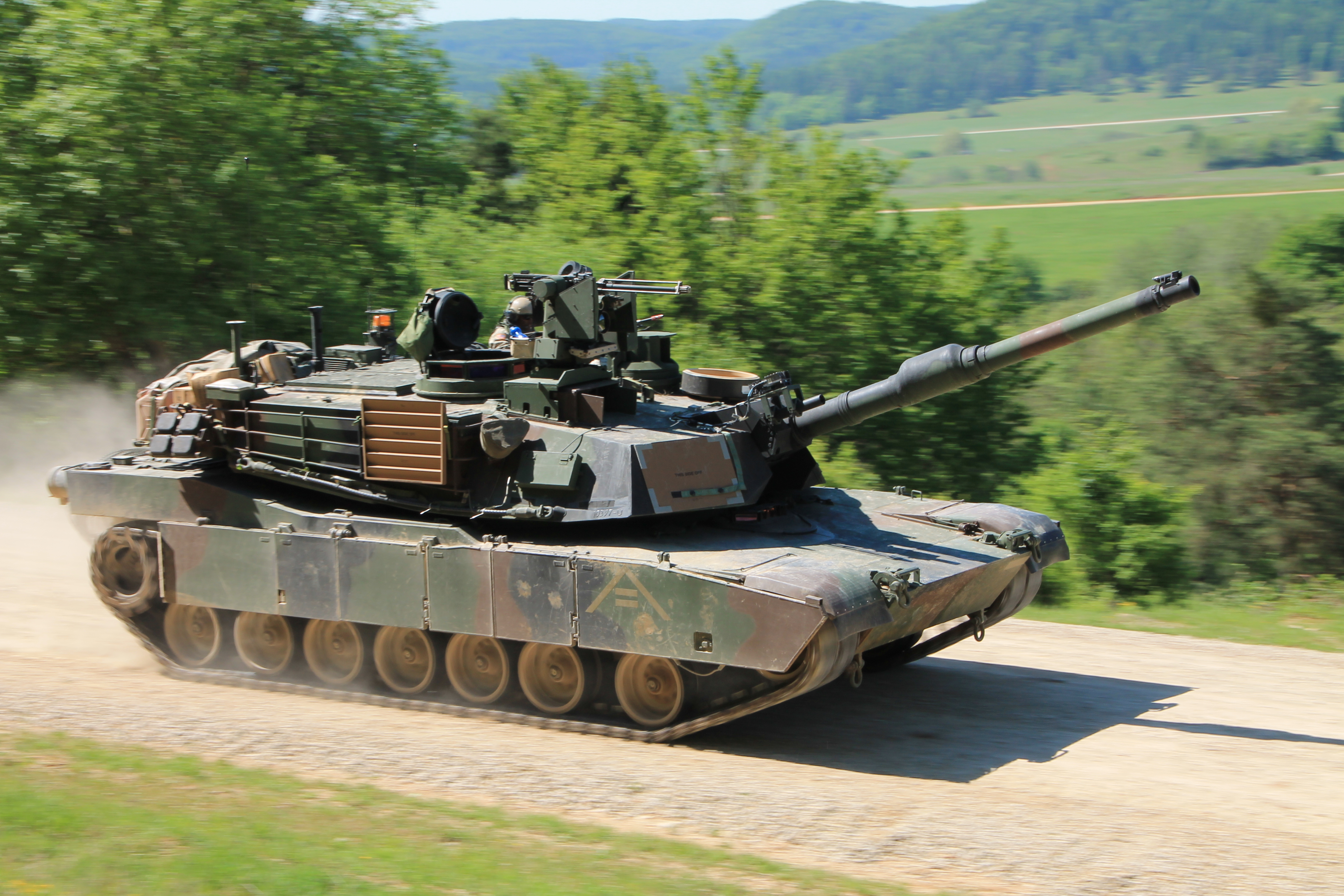 Combined Resolve II Distinguished Visitors